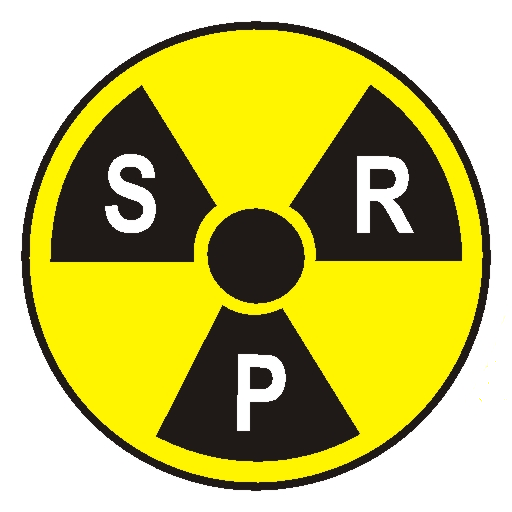 Official logo of the Society for Radiological Protection, forwarded to me by the President of the Society